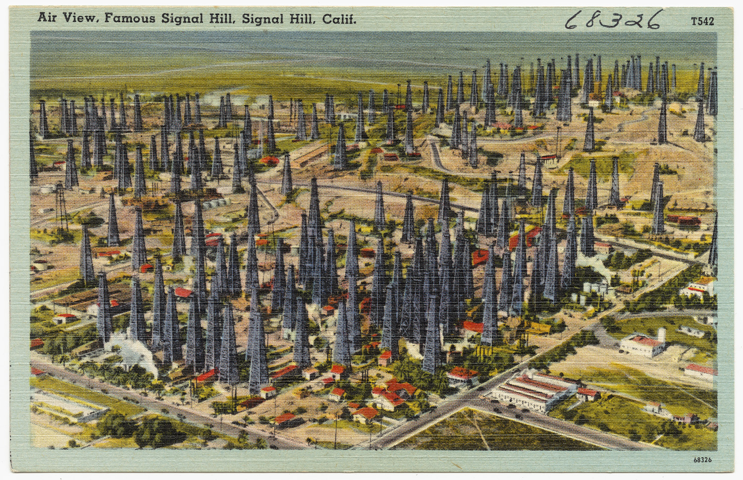 File name: 06_10_010222 Title: Air View, Famous Signal Hill, Signal Hill, Calif. Date issued: 1930 - 1945 (approximate) Physical description: 1 print (postcard) : linen texture, color ; 3 1/2 x 5 1/2 in. Genre: Postcards Notes: Title from item. Collection: The Tichnor Brothers Collection Location: Boston Public Library, Print Department Rights: No known restrictions